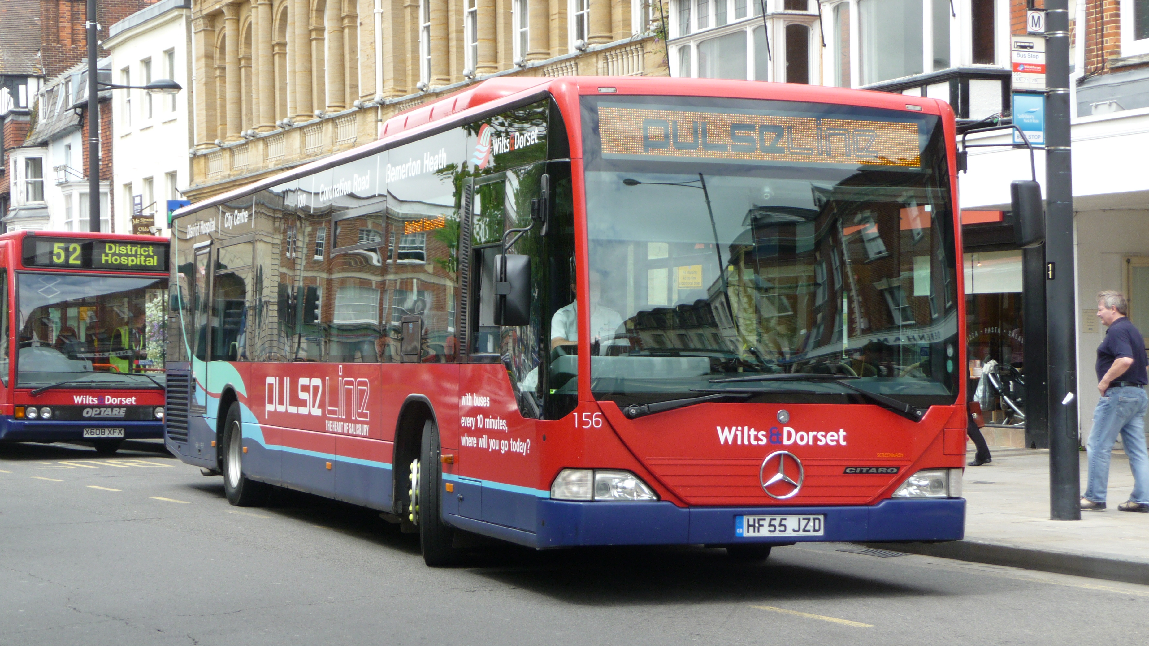 Wilts & Dorset 156 (HF55 JZD), a Mercedes-Benz Citaro, in Blue Boar Row, Salisbury, Wiltshire, on the Pulseline service. Pulseline was the new name for service 52, and while the Citaros didn't display the old number, when other buses had to cover the route, they still showed "52". As part of the new Salisbury Reds network from 21 March 2010, Pulseline became known as the Red 1.